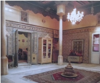 Patio de la maison d'hôtes du Palais Djellouli dans la médina de Tunis